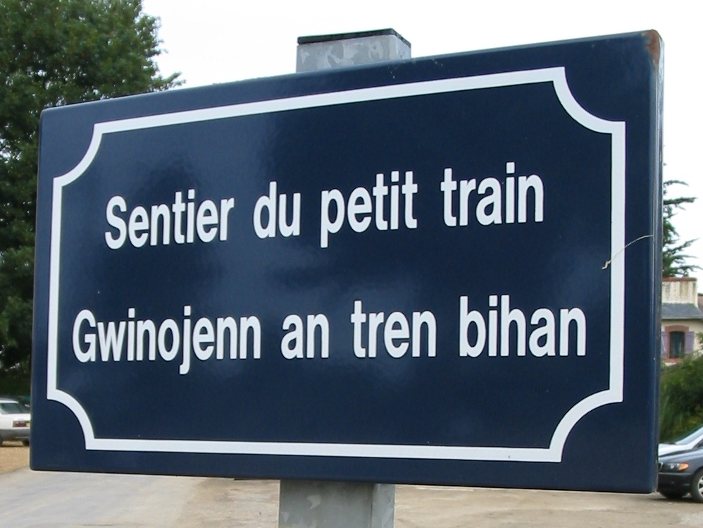 Bilingual sign at start of cycle route along former railway from Carhaix to Douarnenez, Brittany